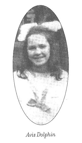 Avis Dolphin (1902-1996)